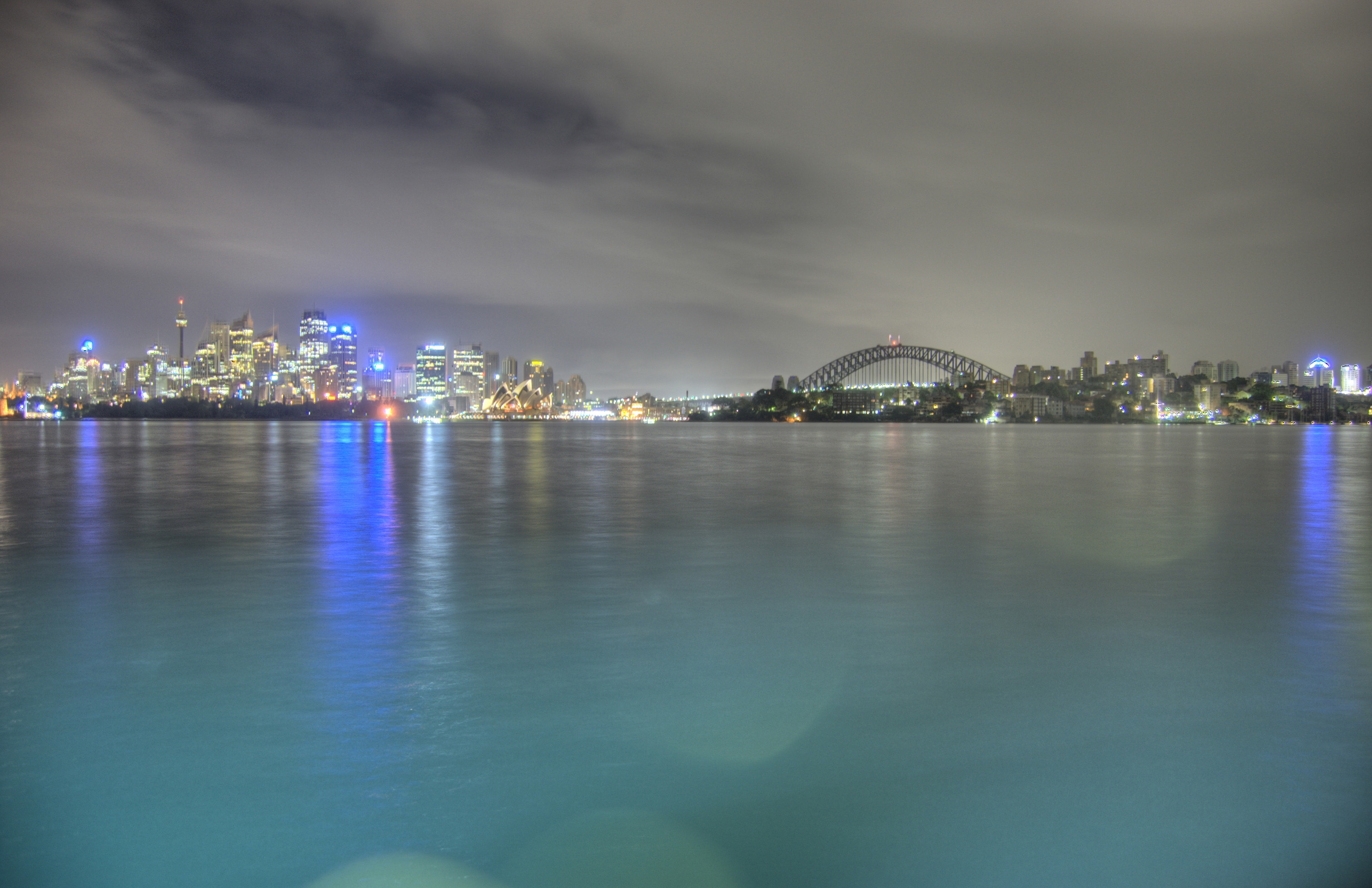 Sydney at night from Cremorne Point. From left to right is the Sydney CBD, the Sydney Harbour Bridge, and Milsons Point.